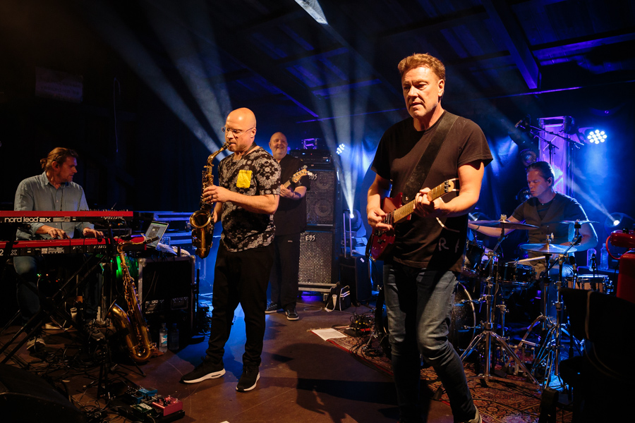 Mezzoforte at the stage of Christians Kjeller. The concert was part of Kongsberg Jazzfestival and took place on 08. July 2017. Lineup: Eythor Gunnarsson (keyboard) Jonas Wall (saxophone) Fridrik Karlsson (guitar) Johann Asmundsson (bass guitar) Gulli Briem (drums)